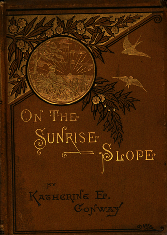 On the Sunrise Slope, By Katherine Eleanor Conway